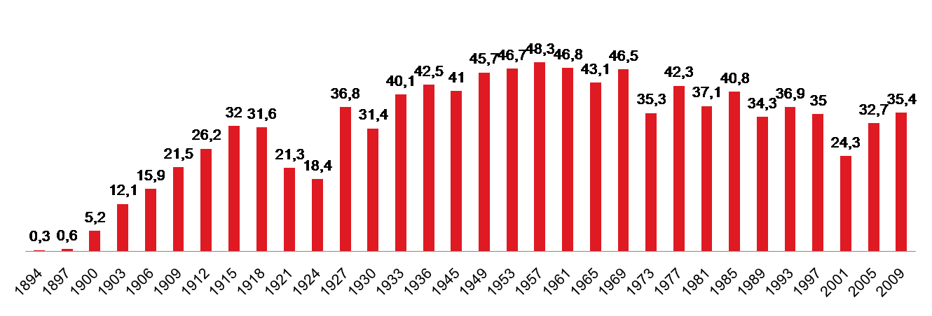 Electoral results of the Norwegian Labour Party since 1894.